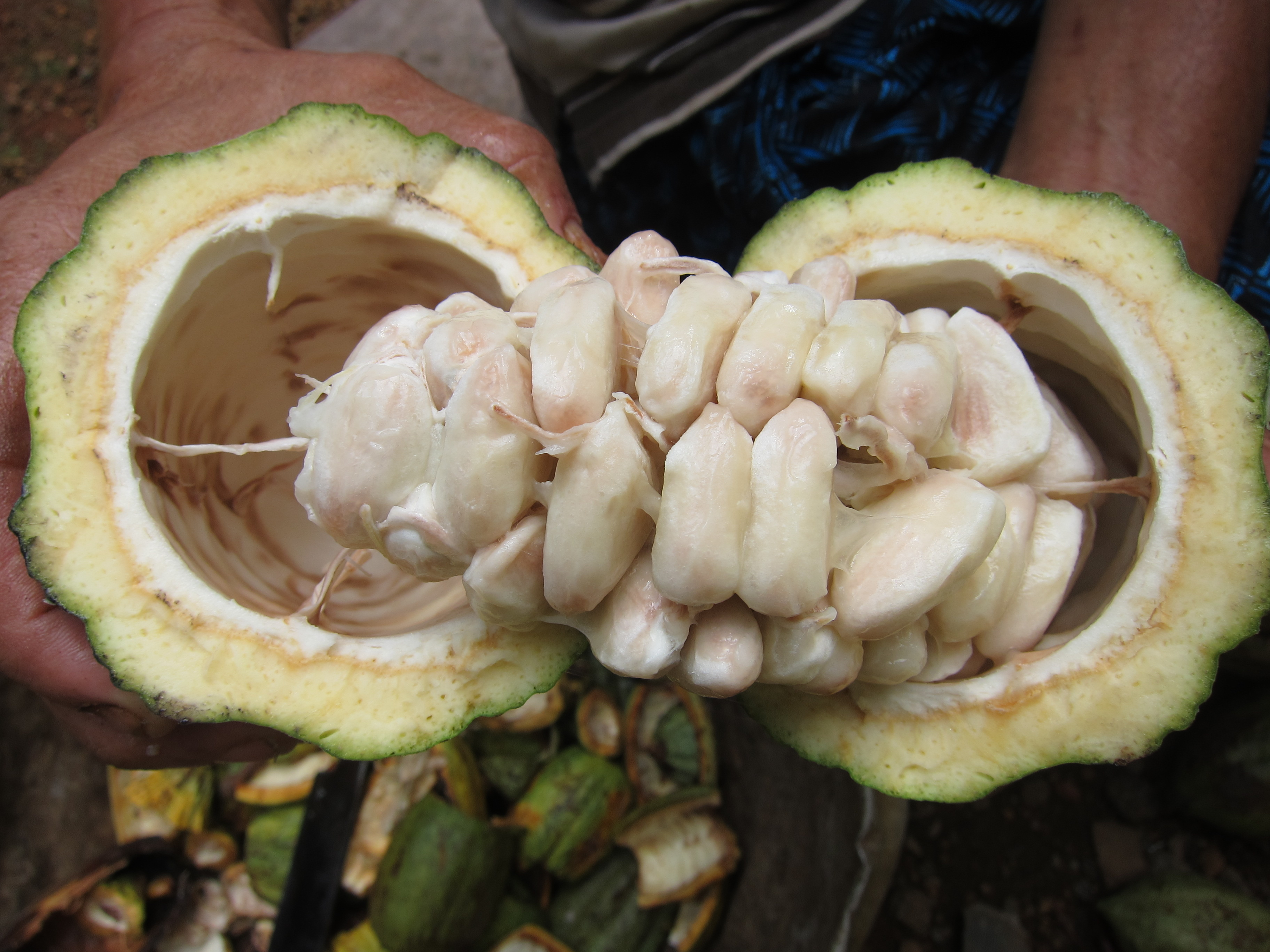 Coco - inside view